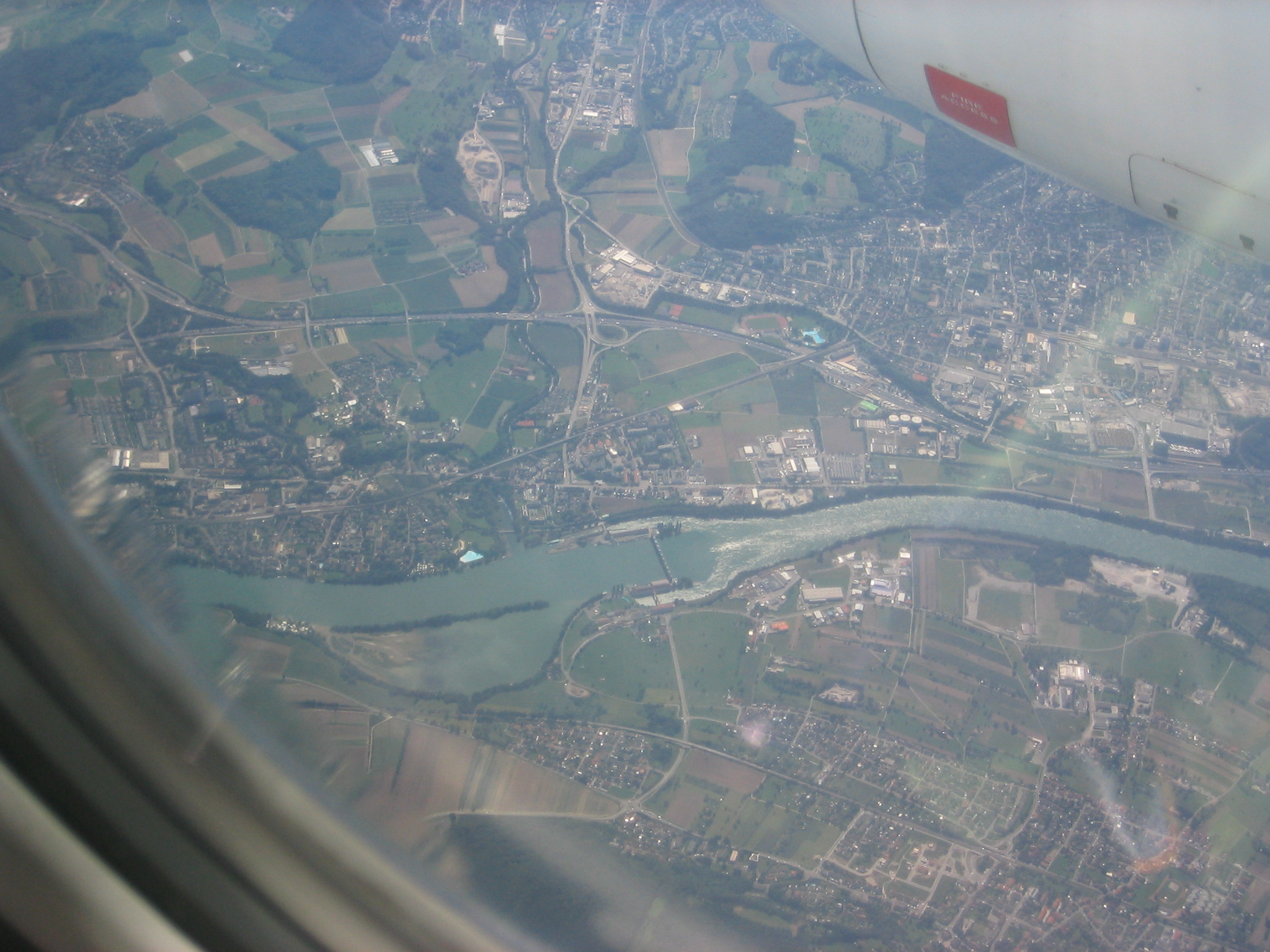 Aerial view of Rhine at Kaiseraugust/Pratteln/Wyhlen. With Augst/Wyhlen power plant in the centre, Ergolz river joining the Rhine.